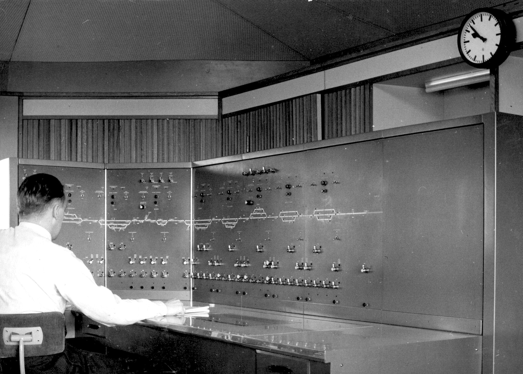 Tower interior with centralized traffic control pannel (CTC-pannel) at Nijmegen, the Neterlands.